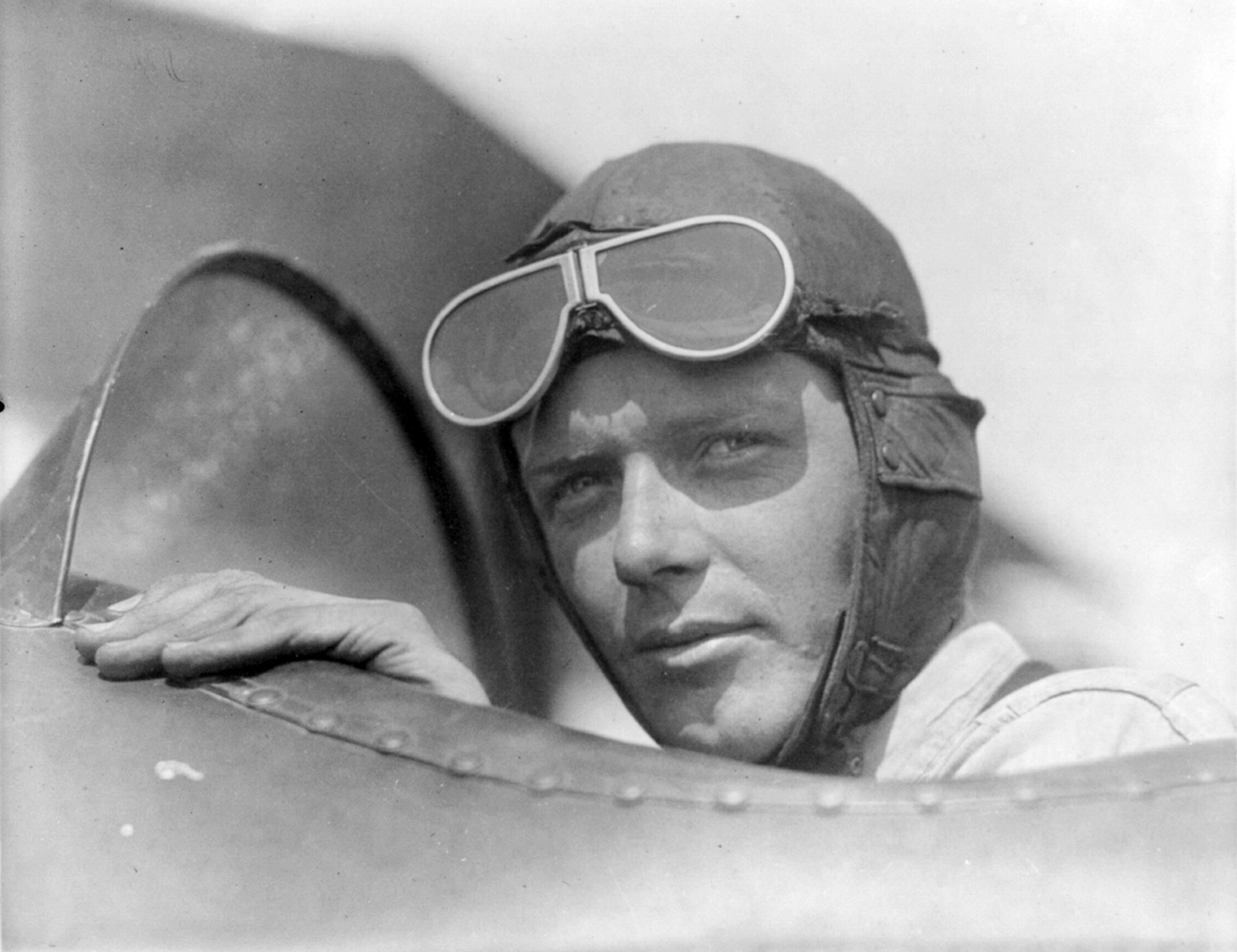 Charles Lindbergh, wearing helmet with goggles up, in open cockpit of airplane at Lambert Field, St. Louis, Missouri.